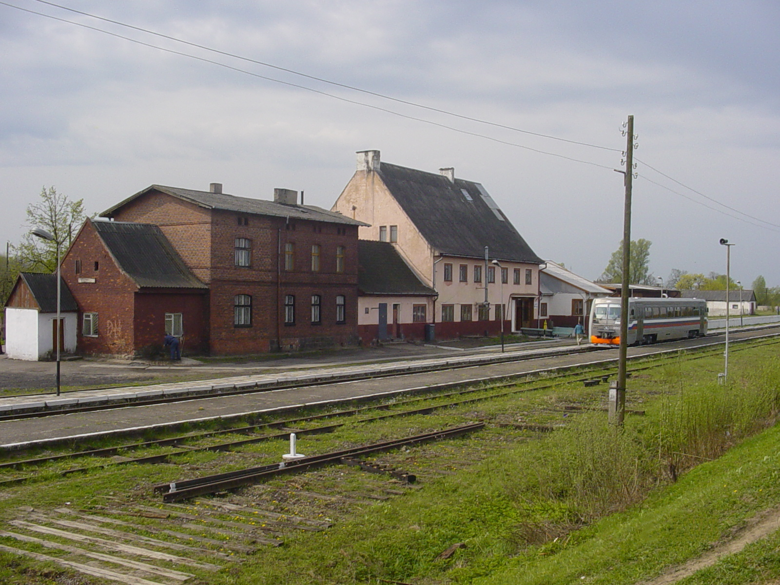 Train station in Bolshakovo (formerly Kreuzingen) in Kaliningrad Oblast of Russia. Picture taken during a railfan tour with a diesel railcar shown on the right-hand side.